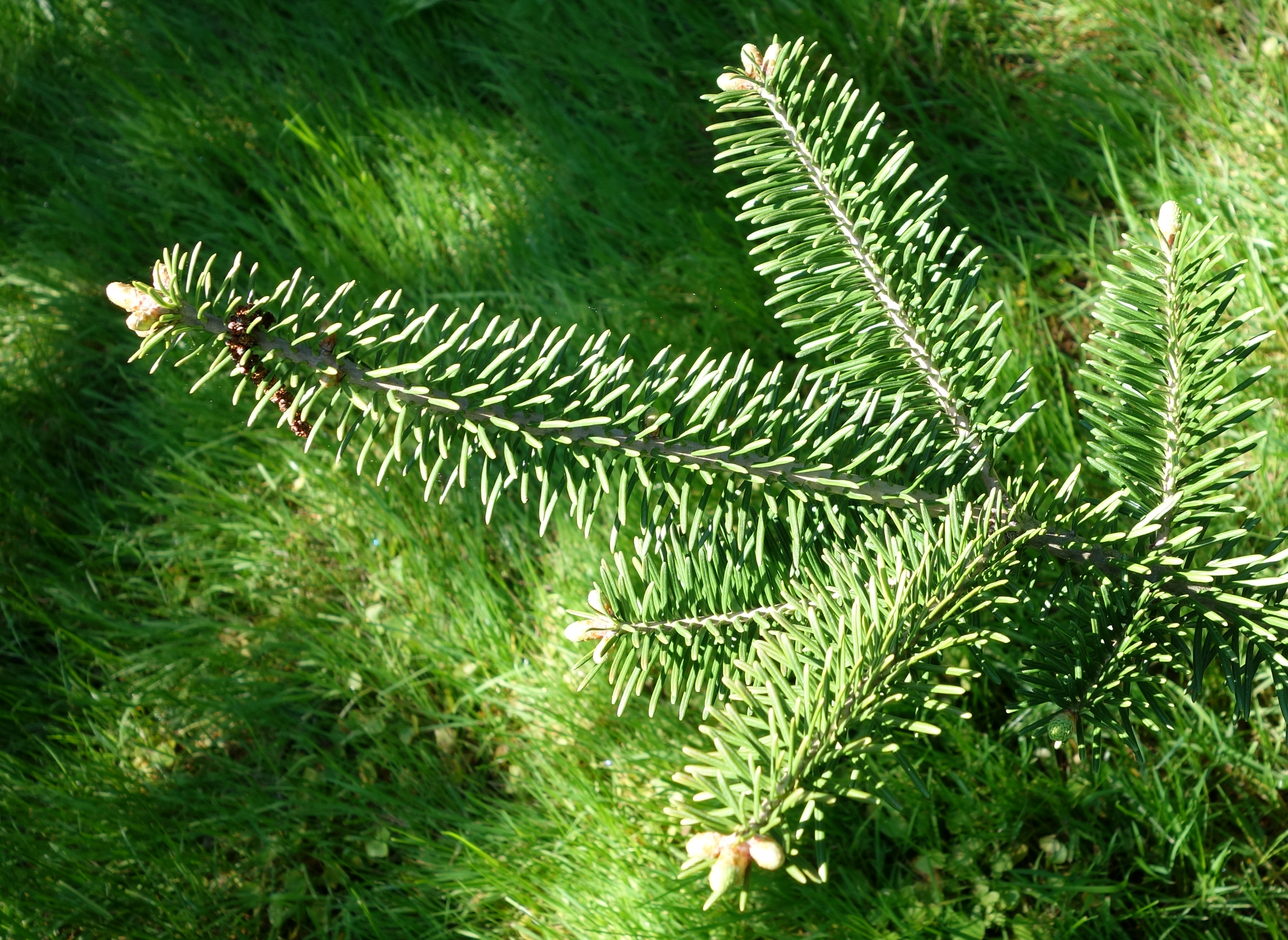 Botanical specimen in the Stanley M. Rowe Arboretum, Indian Hill, Ohio, USA.